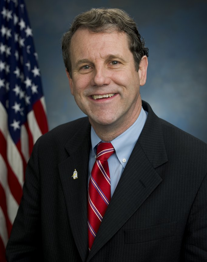 Sherrod Brown, member of the United States Senate.